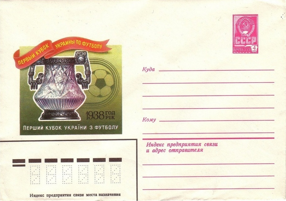 Soviet Union - First Ukrainian SSR Cup 1938 24/10/79. Soviet envelope that commemorates the first Ukrainian SSR Cup competition held in 1938. Cachet shows image of the cup with Russian text in a scroll at the top with Ukrainian at the bottom.